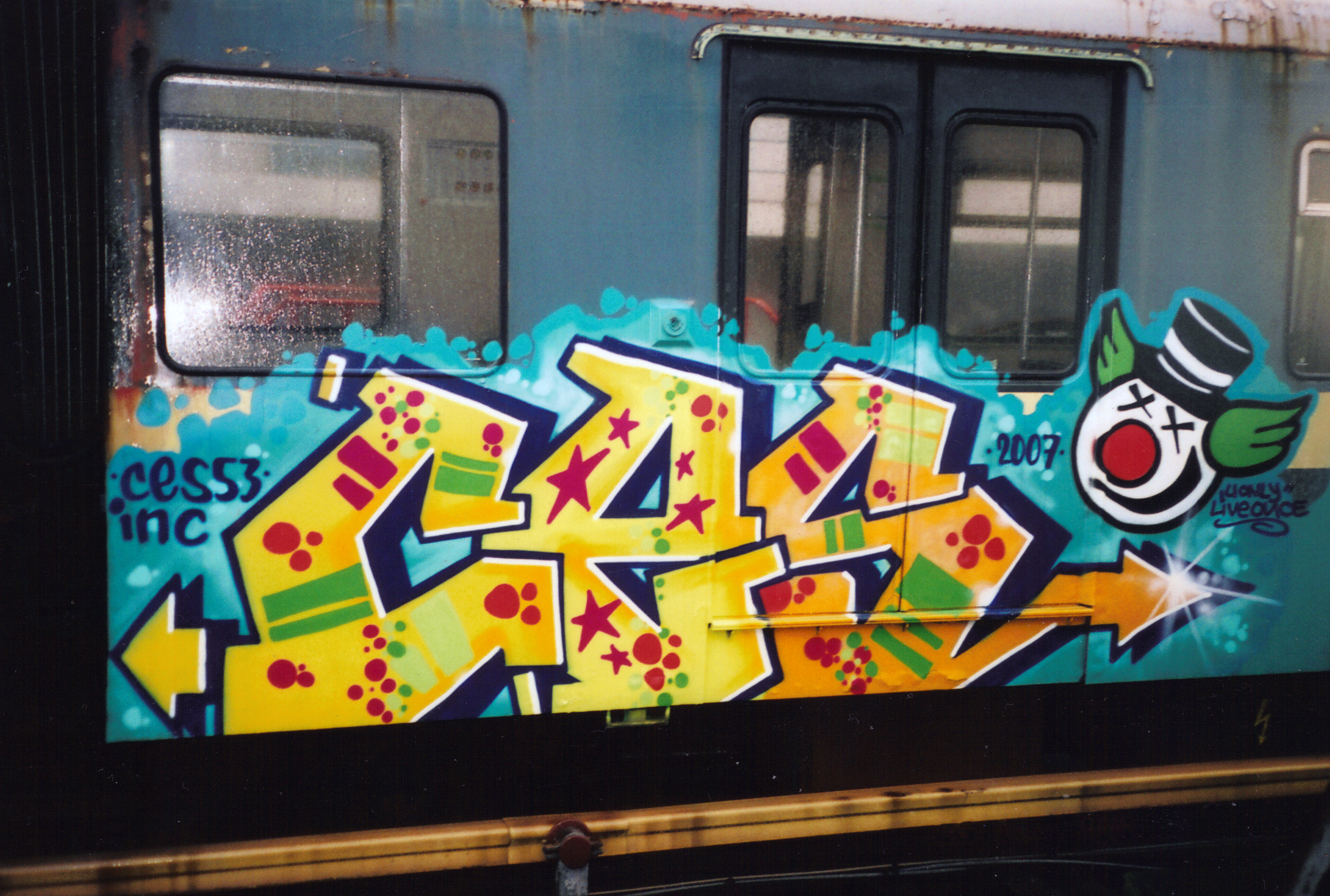 Train Graffiti by CES53 one of the most famous European Graffiti writers.